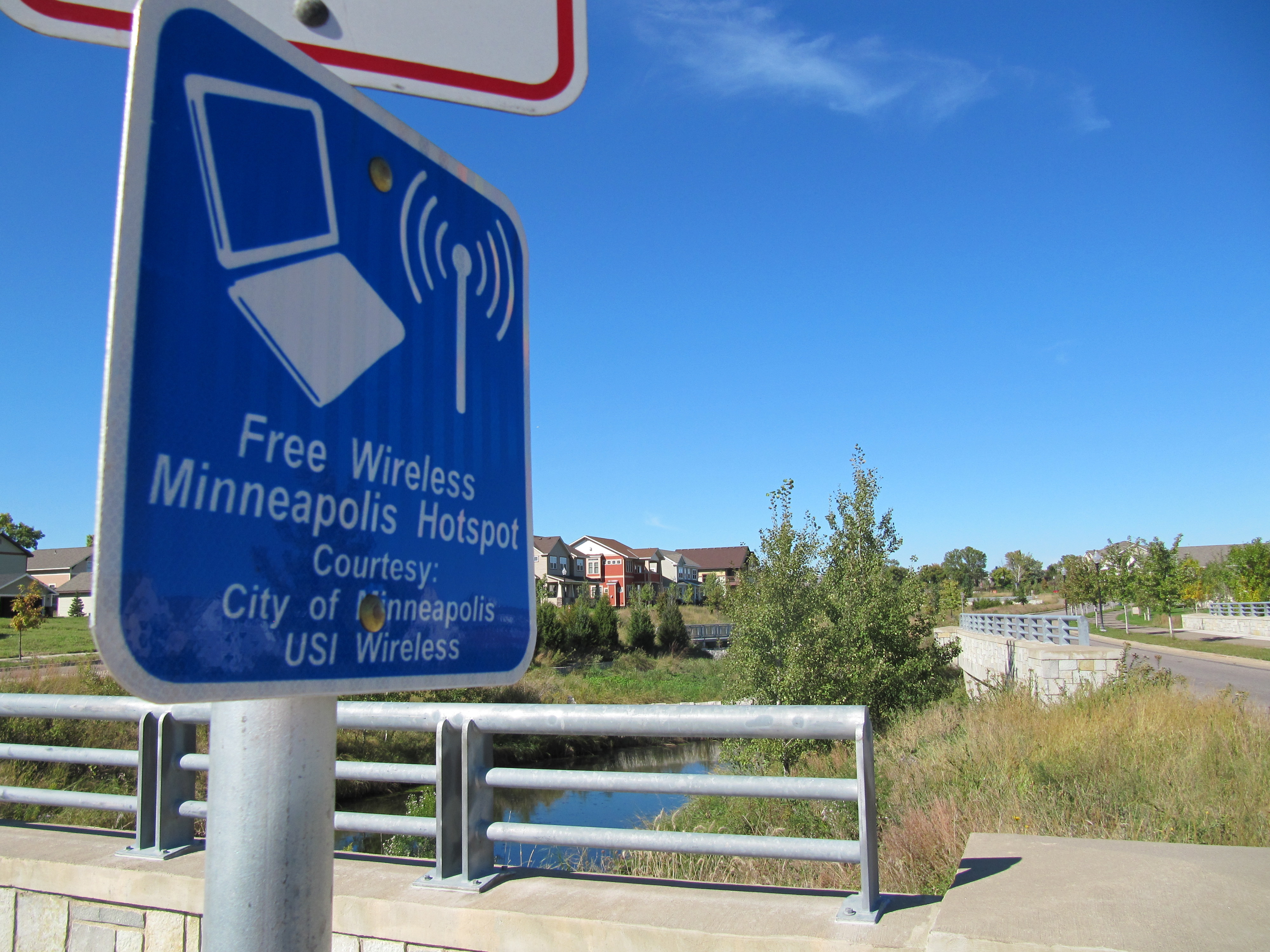 Free Wireless (WiFi) Minneapolis Hotspot in Sumner Field